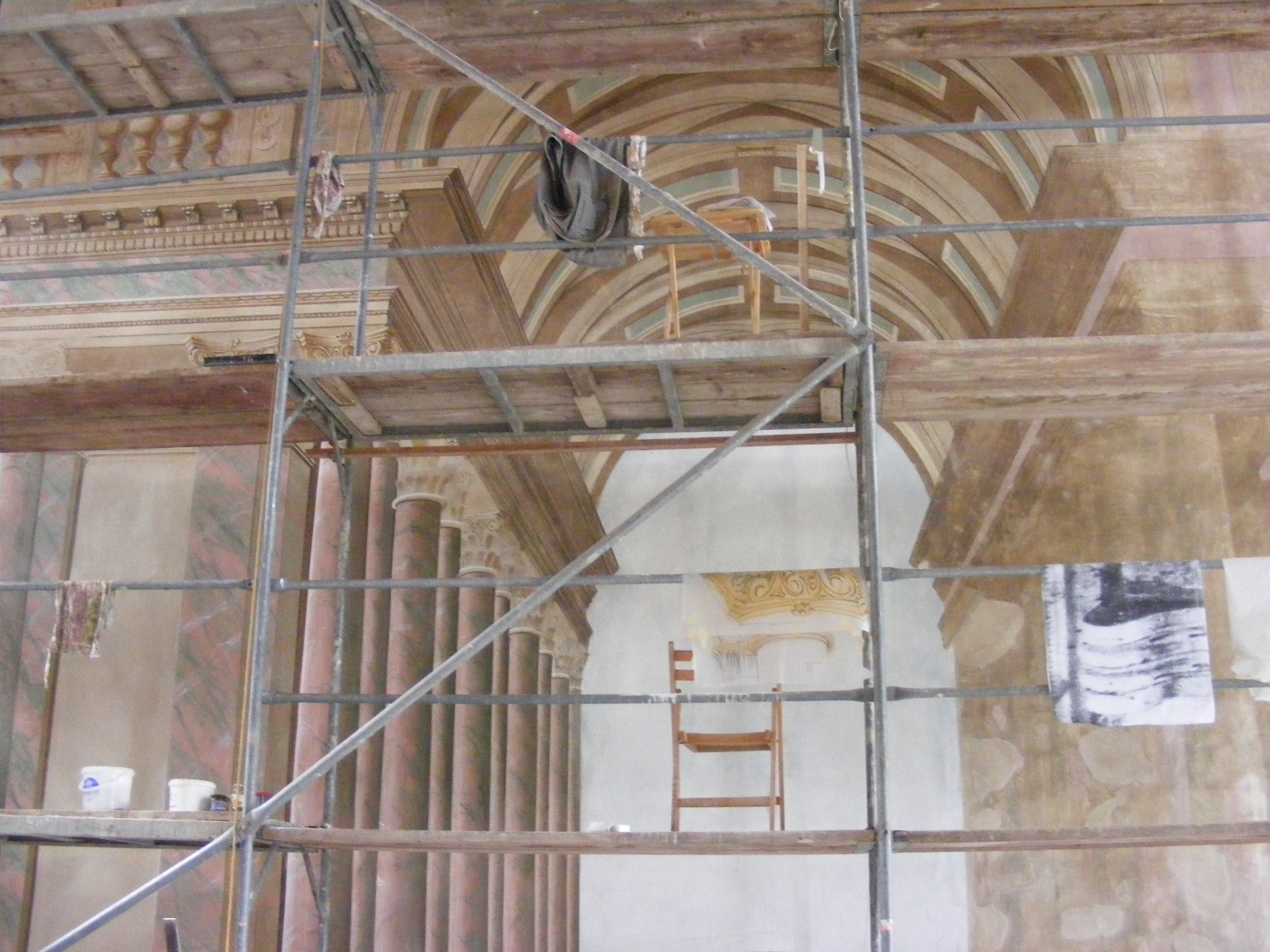 Rossewitz Castle, Mecklenburg. Reconstruction work of illusionistic paintings in the ballroom